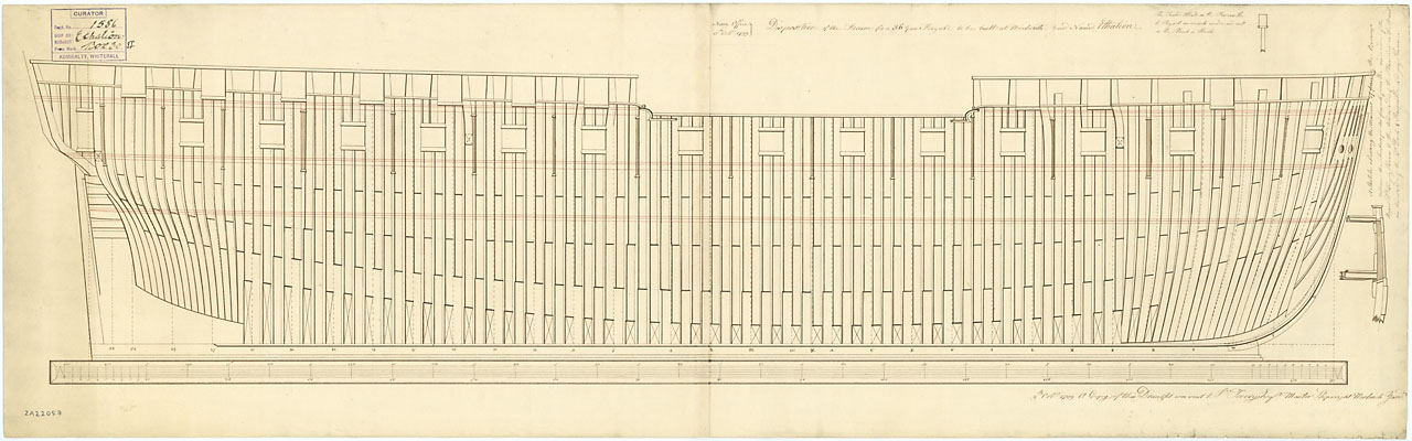 Ethalion (1802) Scale: 1:48. Plan showing the framing profile (disposition) for Ethalion (1802), a 36-gun Fifth Rate, Frigate to be built at Woolwich Dockyard. A copy was sent on 9 October 1799 to John Tovery, Master Shipwright of Woolwich Dockyard. ETHALION 1802